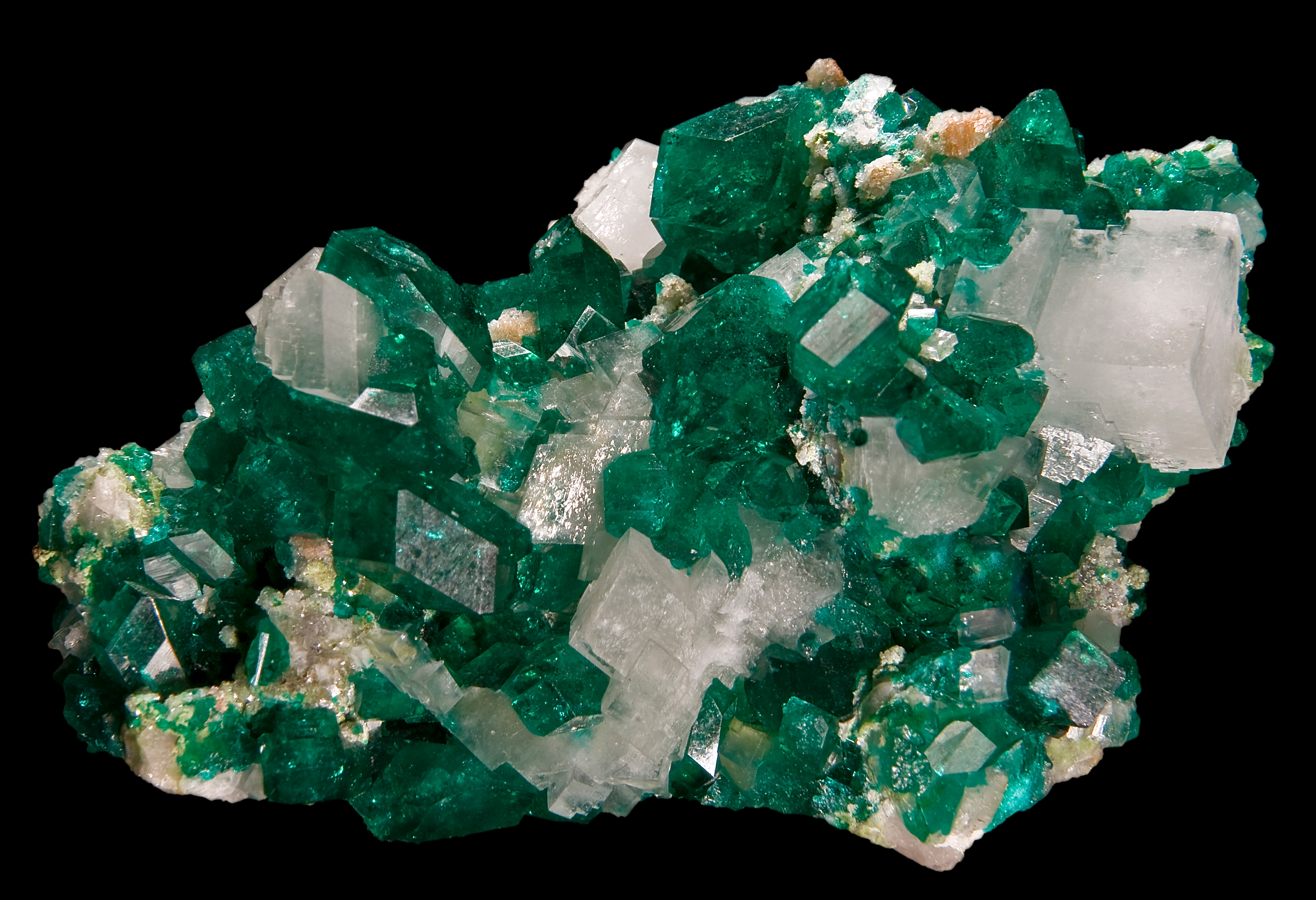 Dioptase with calcite and minrecordite - Tsumeb Mine (Tsumcorp Mine), Tsumeb, Otjikoto (Oshikoto) Region, Namibia (5.5x4cm)